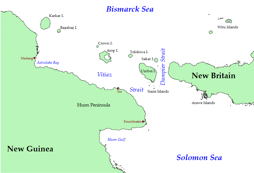 Map northeast New Guinea showing Vitiaz Strait and islands